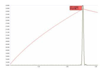 I am the originator of this image I am the originator of this image